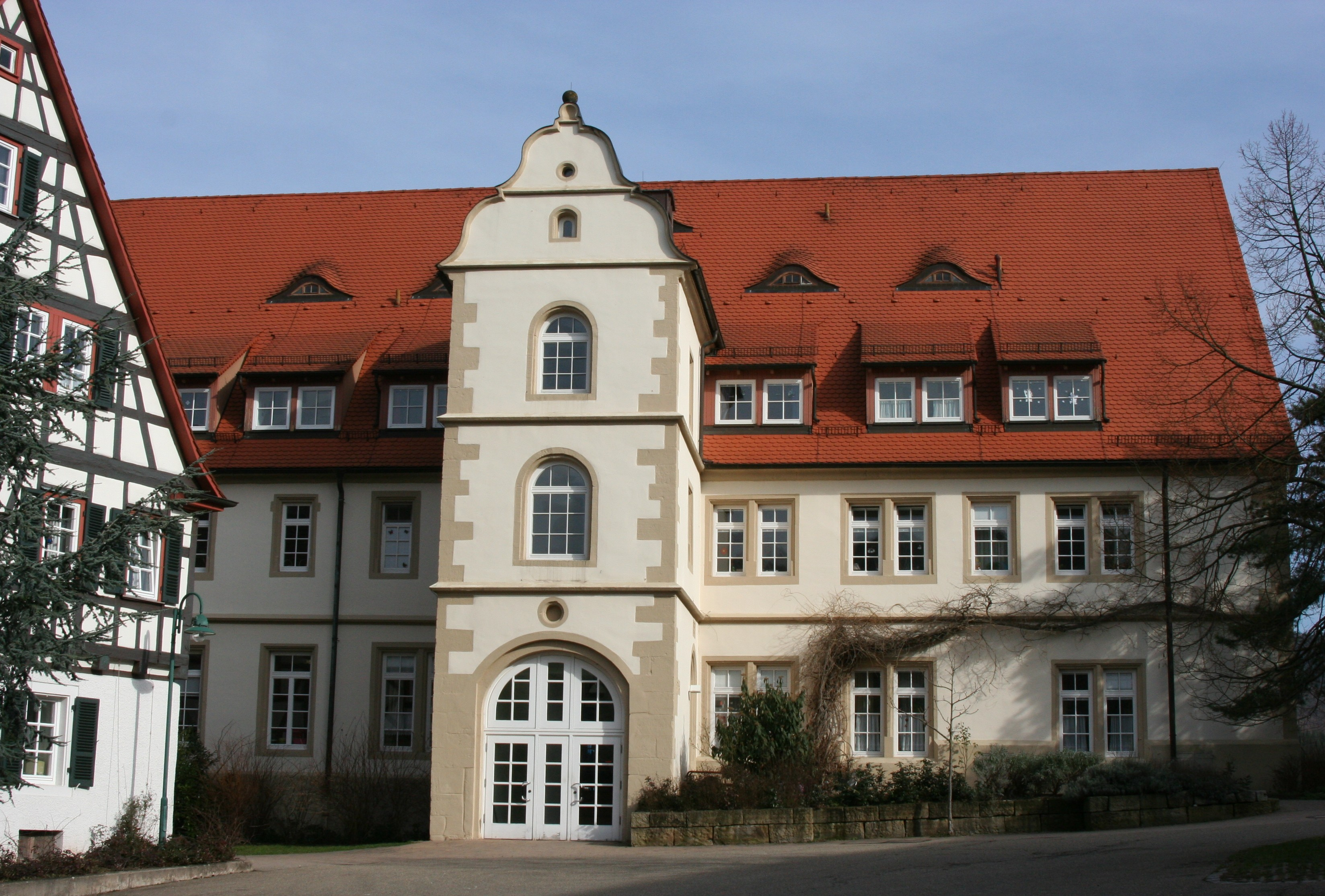 The former Cistercian nunnery in Löwenstein-Lichtenstern. Former cooper's house